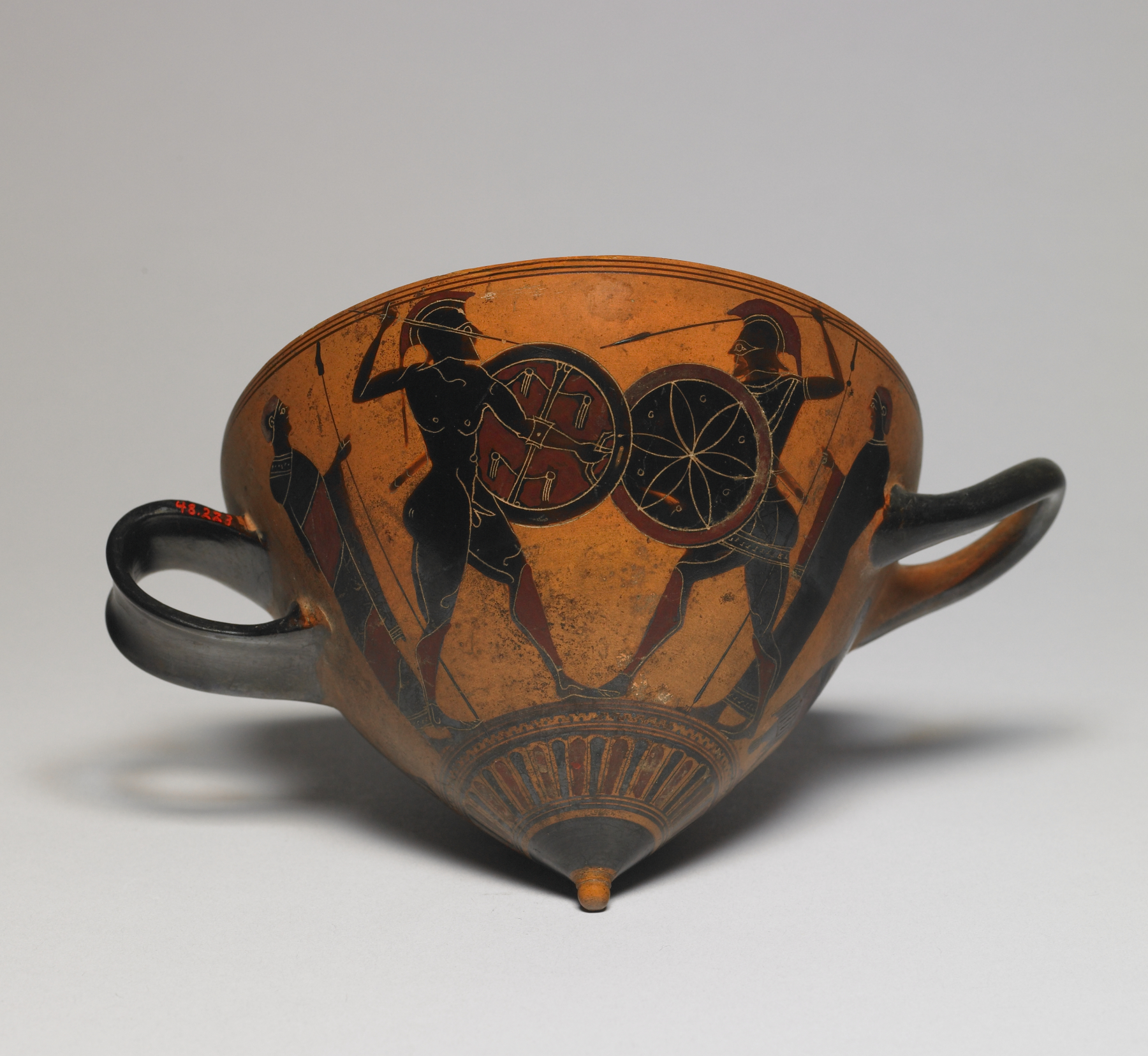 This shape of drinking-cup is called a "mastos" and resembles a woman's breast. On the front, a soldier whose nudity signifies heroic status advances against two warriors dressed in short tunics; two heralds watch from either side. On the back, a nude warrior confronts a clothed one in a similar scene. Beneath the horizontal handle stands a siren, a mythical creature with a woman's head and a bird's body, whose powers included knowledge of the outcome of battles.